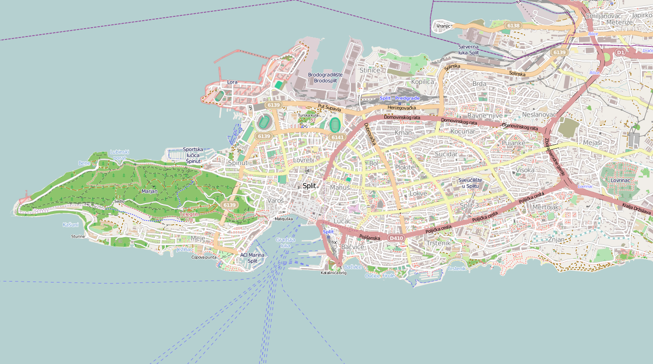 Split, Croatia This map of Split was created from OpenStreetMap project data, collected by the community. This map may be incomplete, and may contain errors. Don't rely solely on it for navigation.